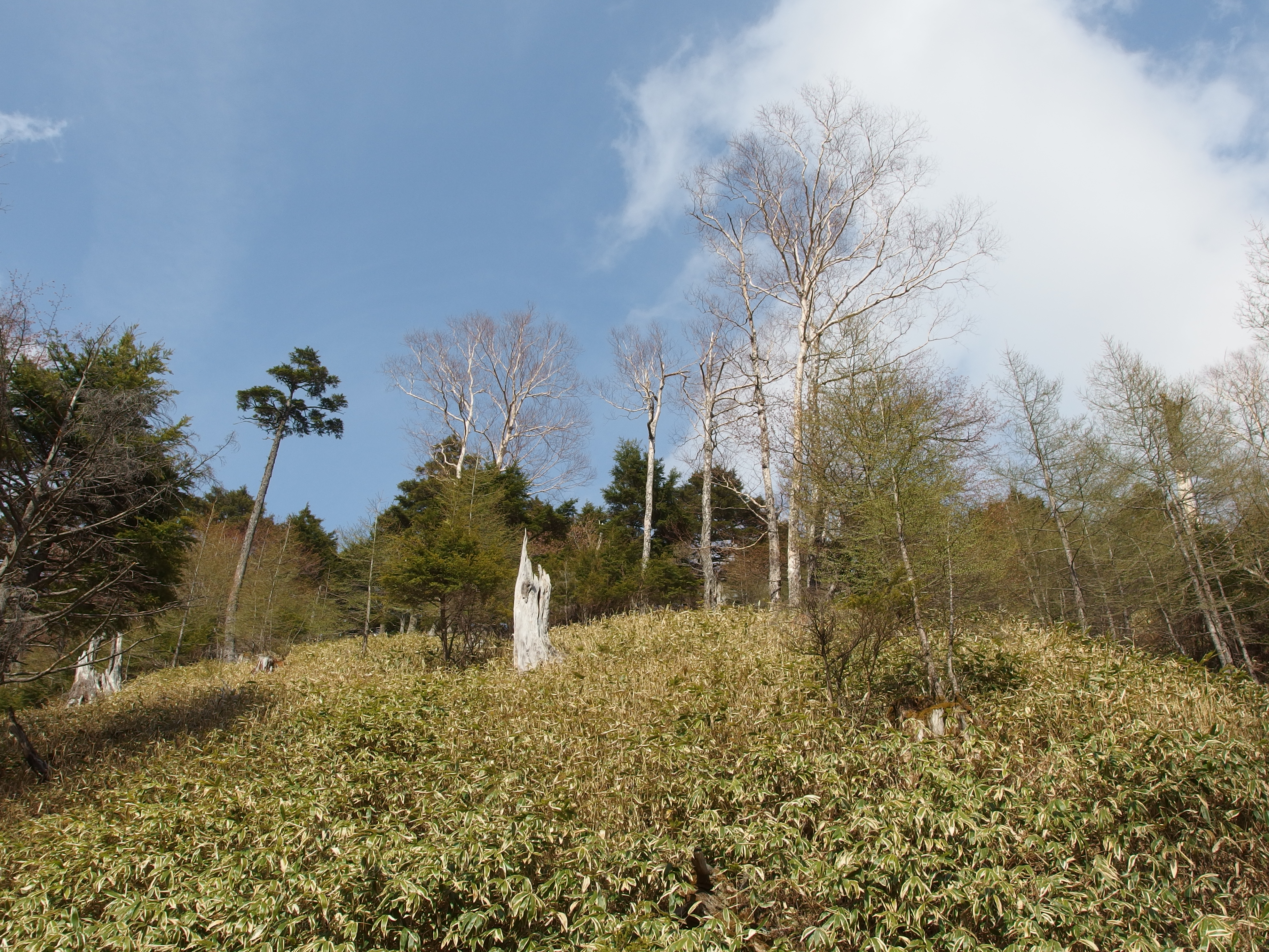 Japan: slope of mount Nyōhō (Nikkō city, Tochigi prefecture).